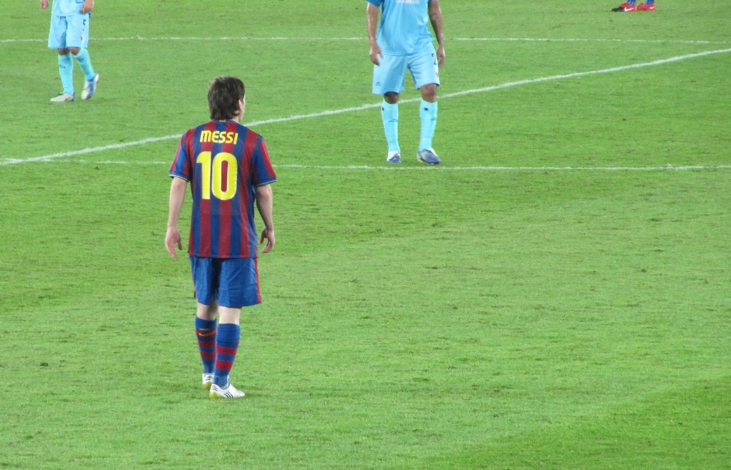 Lionel Messi during 2009 FIFA Club World Cup